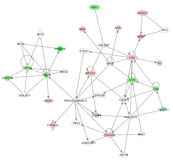 Ingenuity network analysis on some test Affymetrix microarrays.